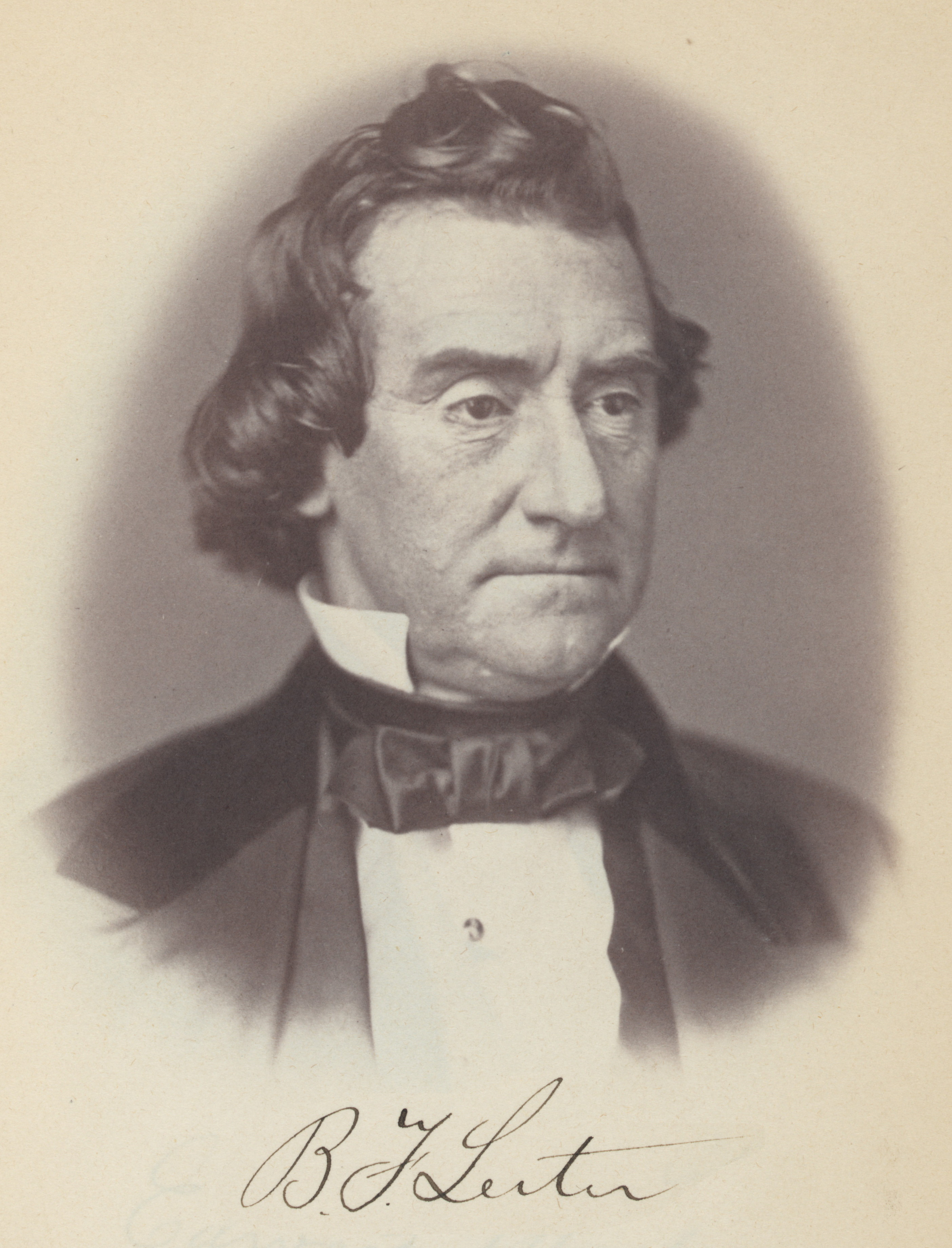 Benjamin F. Leiter, congressman from Canton, Ohio.from (1859) McClees' gallery of photographic portraits of the senators, representatives & delegates to the thirty-fifth Congress, Category:Washington: McClees and Beck, p. 210 .